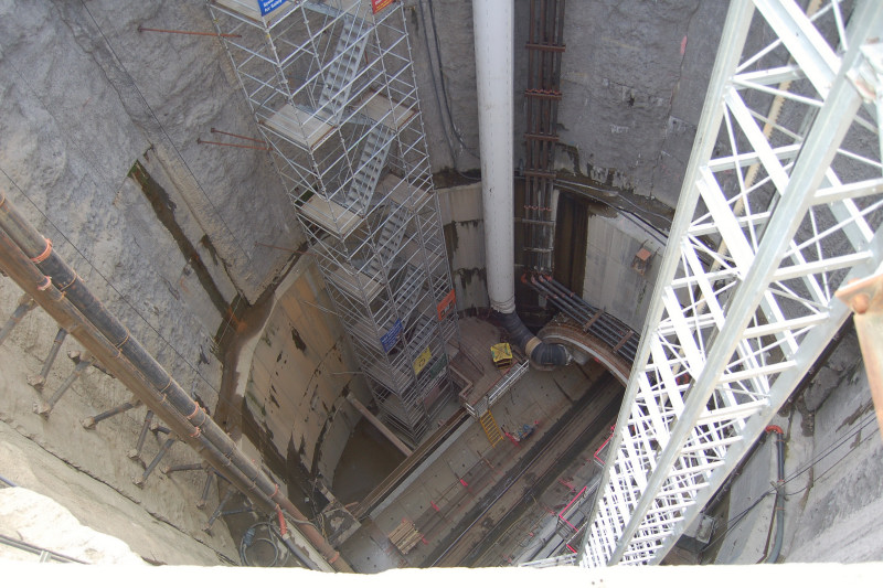 The "Opera Shaft" used in construction the Portland East Side Big Pipe project.